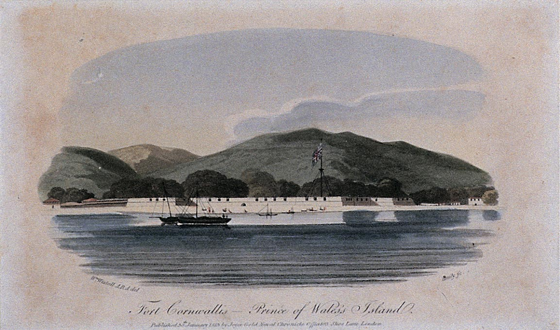 Title: Fort Cornwallis, Prince of Wales's Island Media: Engraving Width: 210 mm (8.3 in) Height: 128 mm (5.0 in) Year of creation: 1804 Mode of acquisition: Purchased 1983 (Martyn Gregory)